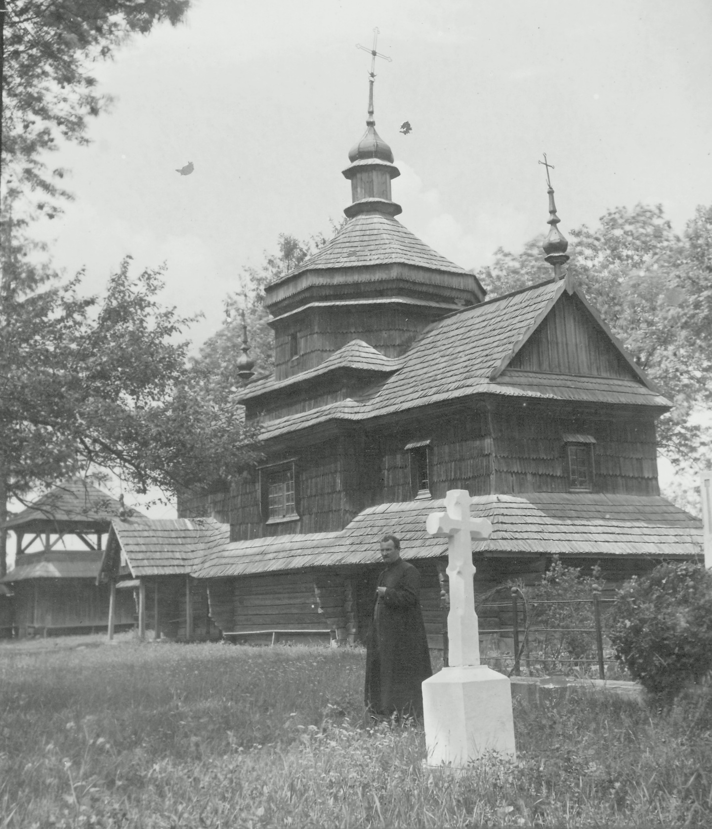 Churh in Dubăuți, Cozmeni, Ukraine (image from the archive of the Metropolitan of Moldavia, 1936, free of copyright)